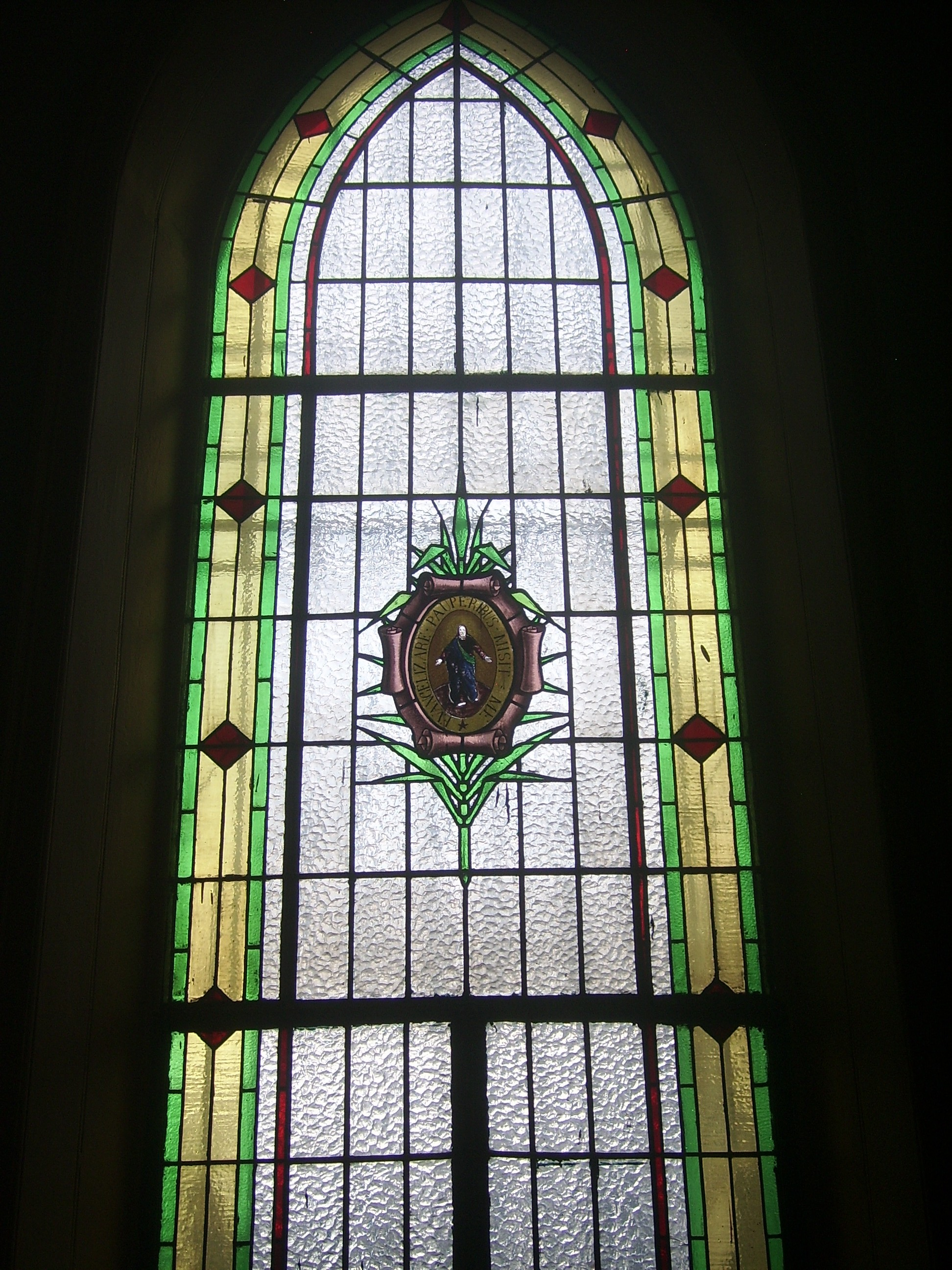 Stained-glass window from the chapel of the Sisters of Charity Hospital in Hangzhou, China.